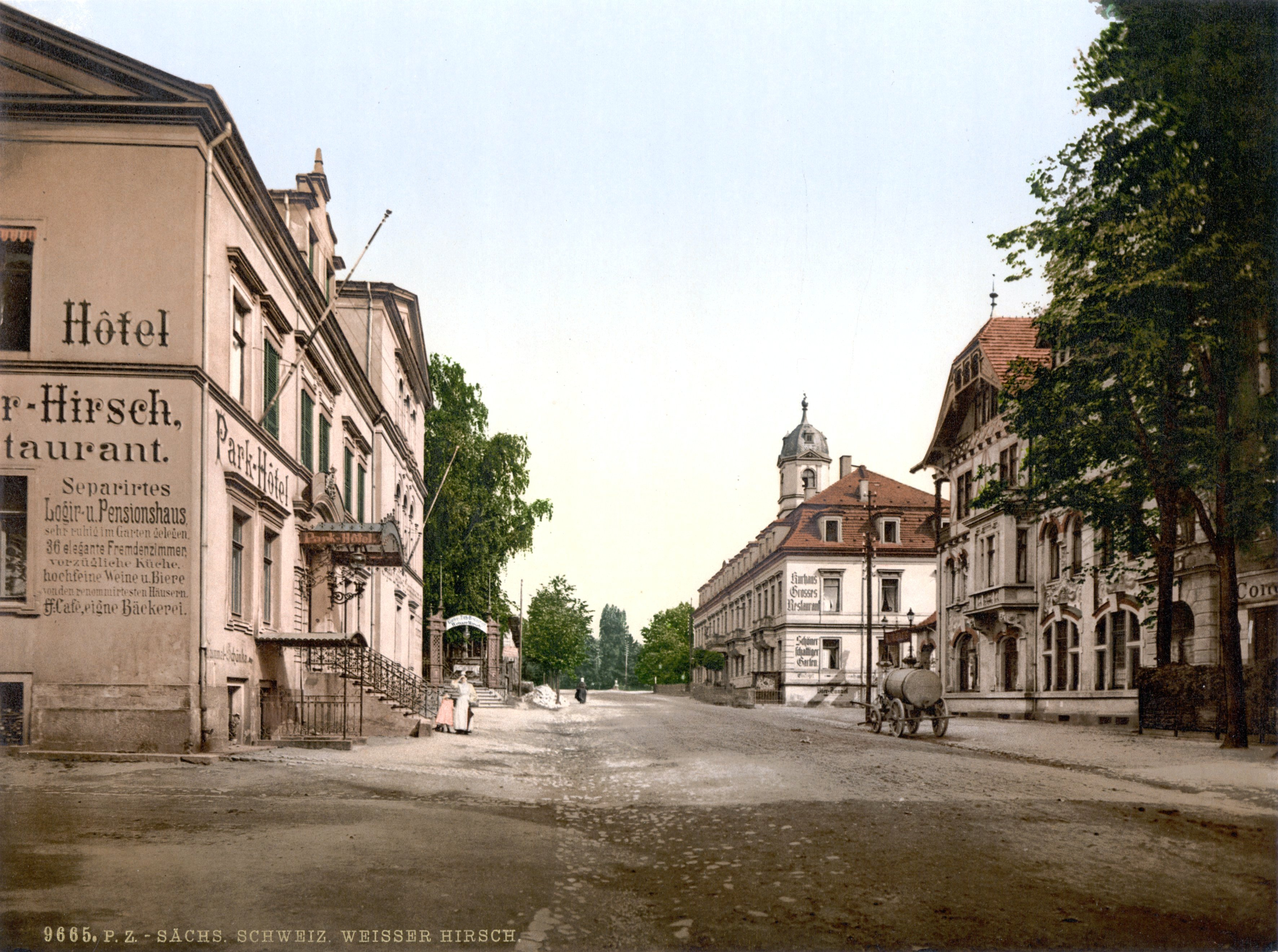 Weißer Hirsch near Dresden, Germany, Bautzner Landstraße